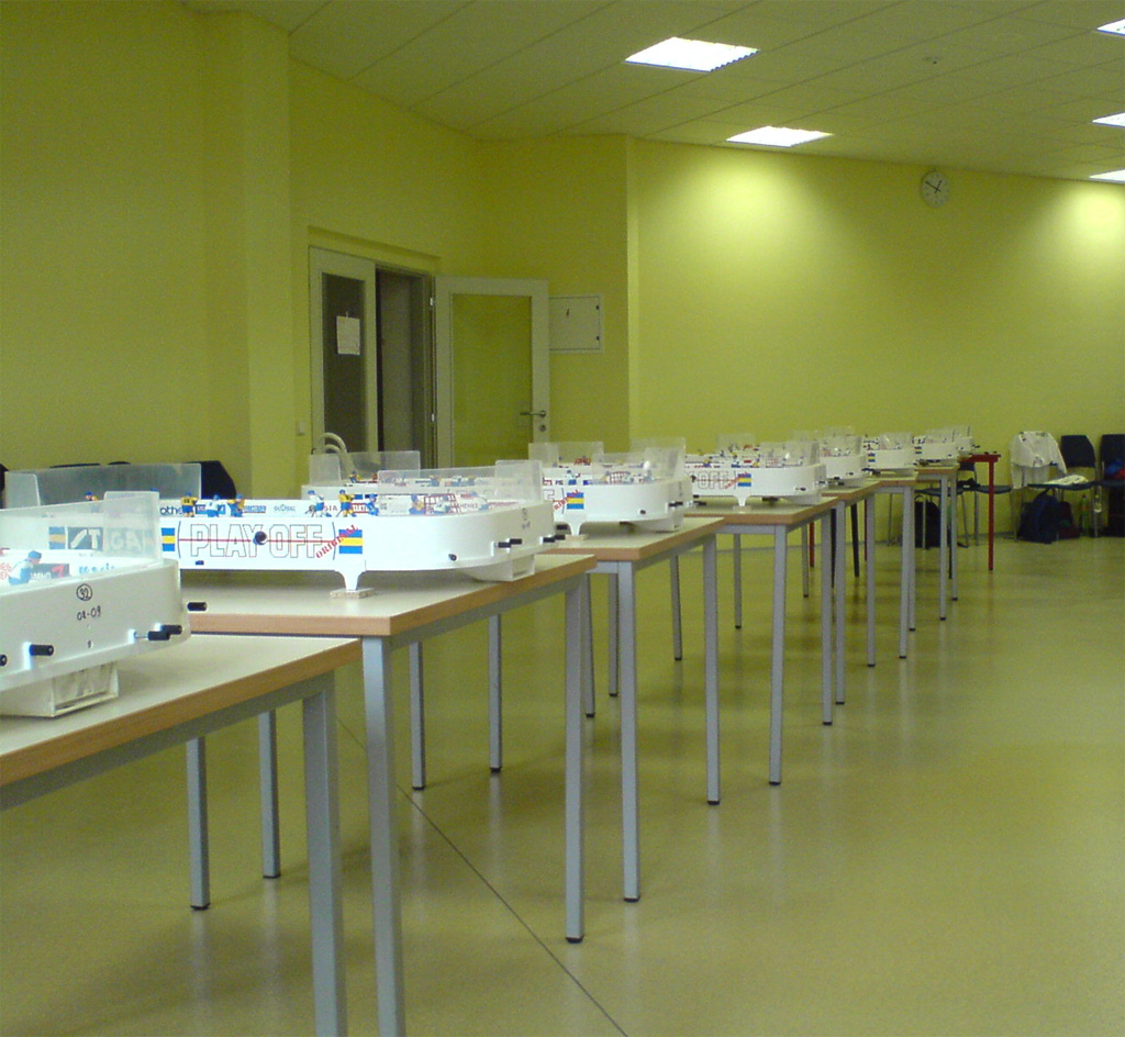 Illustrative photo of table hockeys ready to use in tournament. From a Český pohár tournament in Prague.